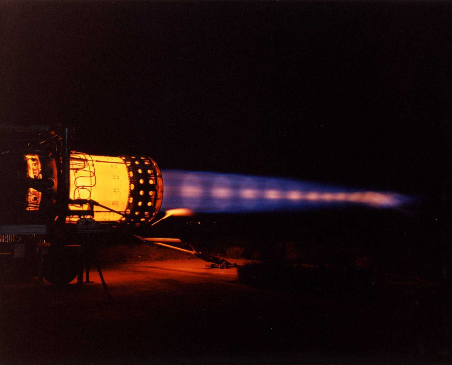 A statically mounted Pratt & Whitney J58 engine with full afterburner on disposing of the last of the SR-71 fuel prior to program termination. The bright areas seen in the exhaust are known as shock diamonds.